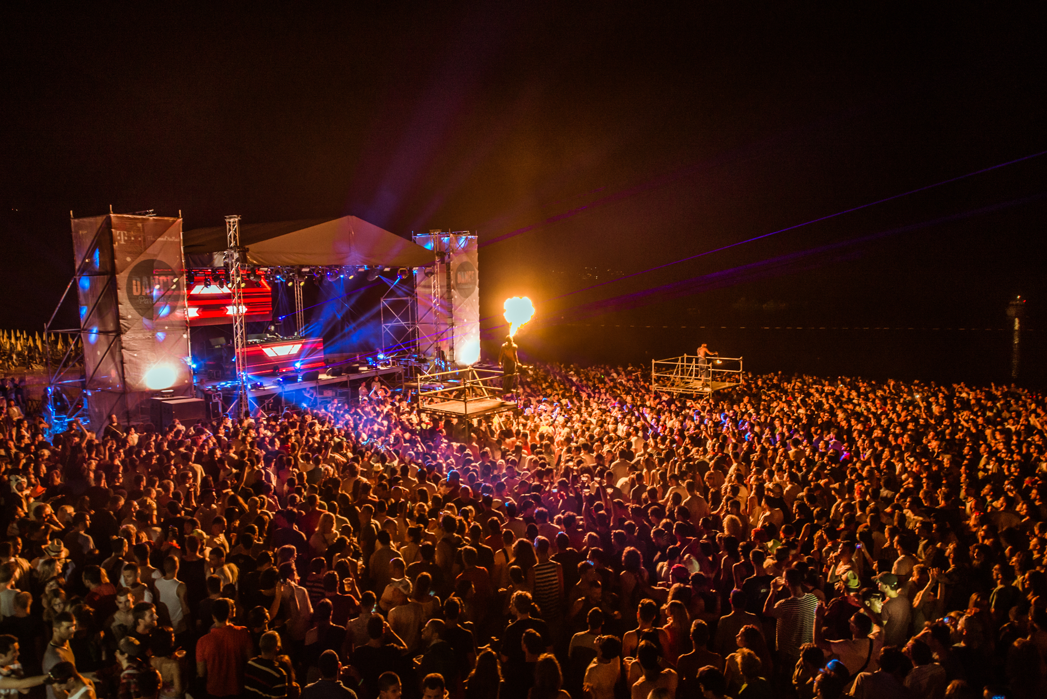 Sea Dance Festival, 2015.